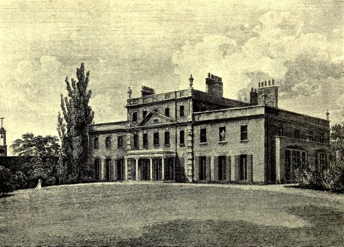 Culland's Grove, Southgate. This etching was prepared as an illustration for the European Magazine, 1801. The house and grounds were purchased in the mid-19th century by the adjoining estate, Grovelands (originally called Southgate Grove), and the house demolished.